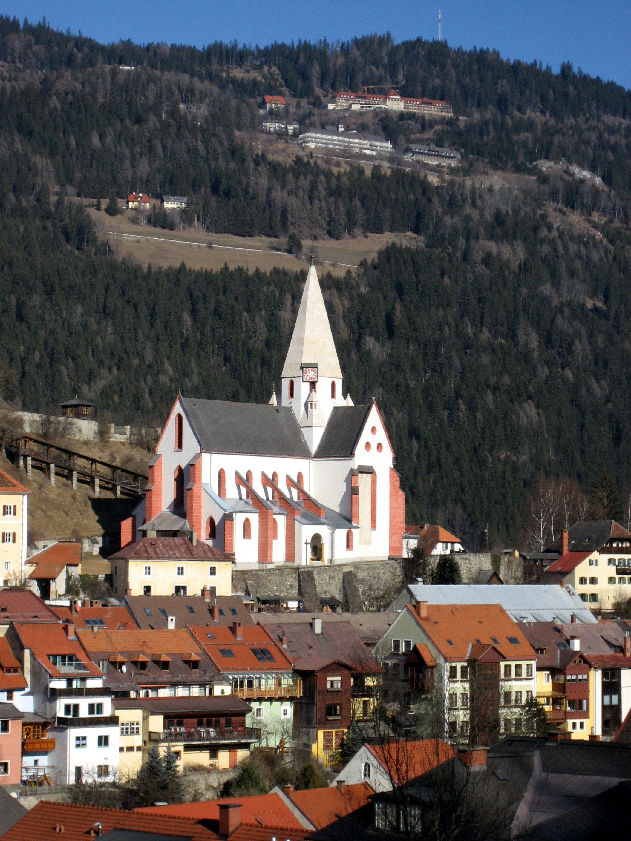 Murau in Styria, Austria: parish church